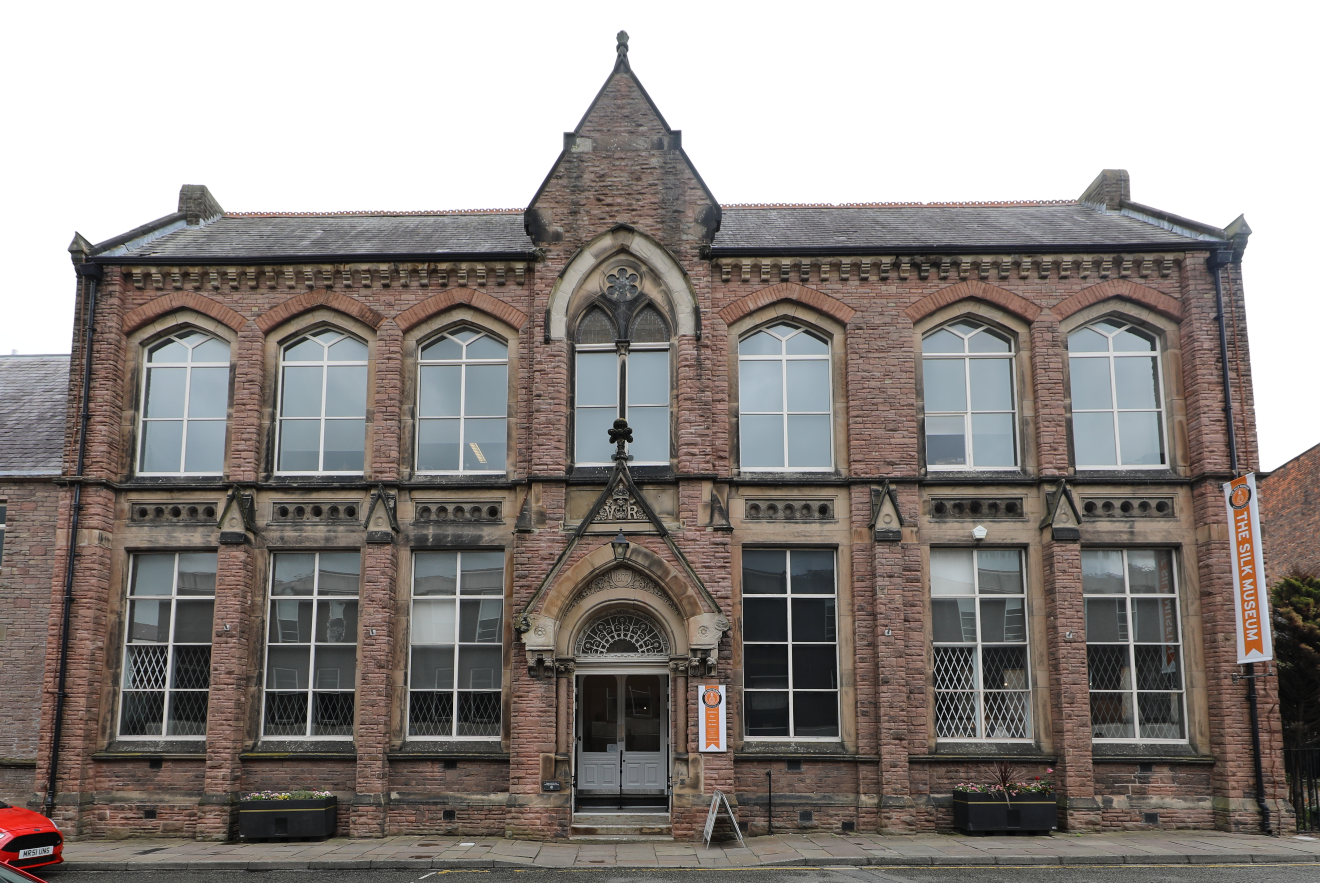 Exterior of the The Silk Museum in Macclesfield